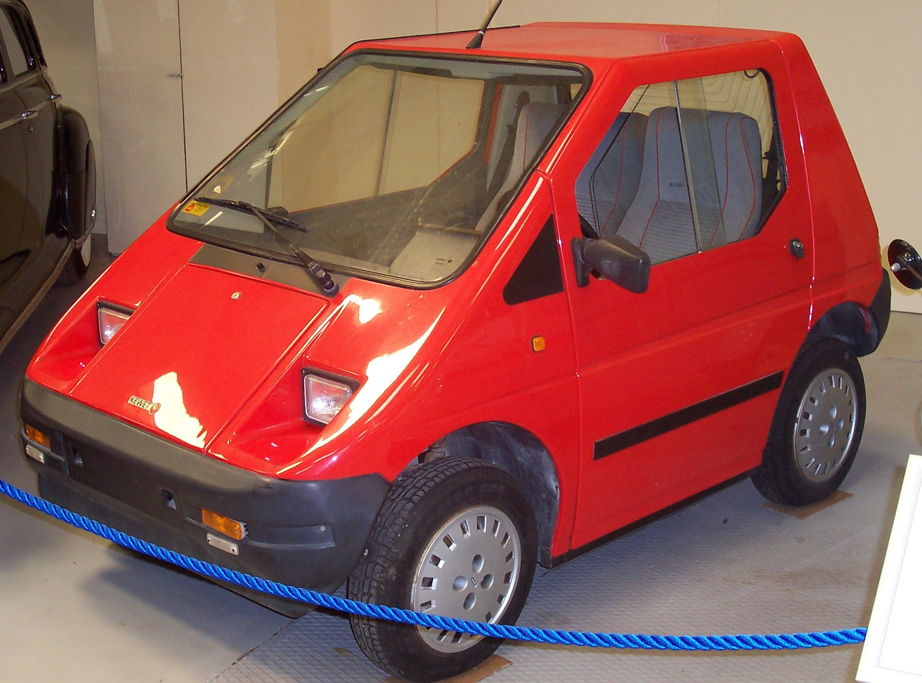 Kewet: early 1990's danish built electric microcar. Location: Vestsjaellands Bilmuseum, Hoeng, Denmark